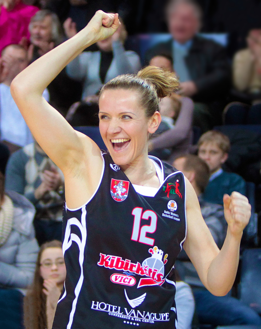 Basketball player Vita Miklyčiūtė-Kuktienė